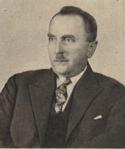 Joseph Delmont, Austrian and German writer and film director